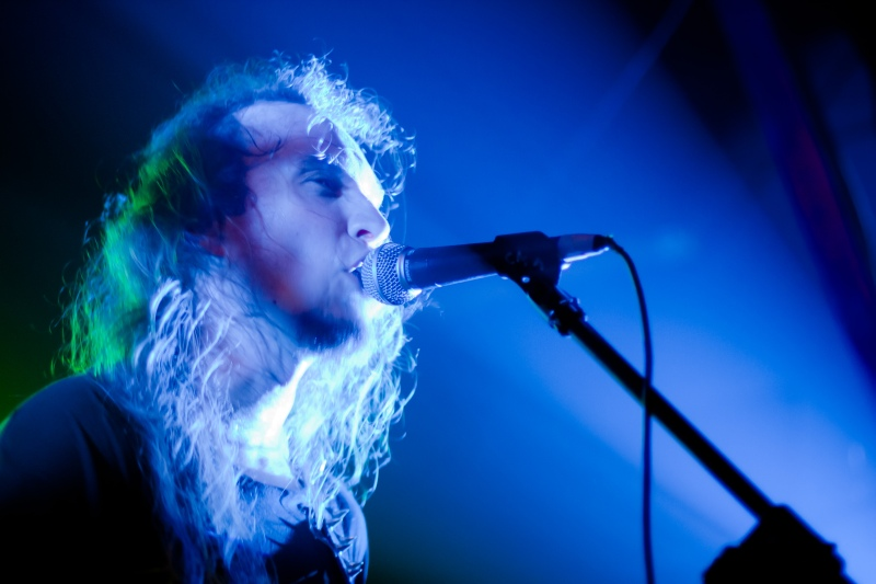 Mścisław of Christ Agony Polish black metal band, Kraków, Loch Ness, 14.10.2010